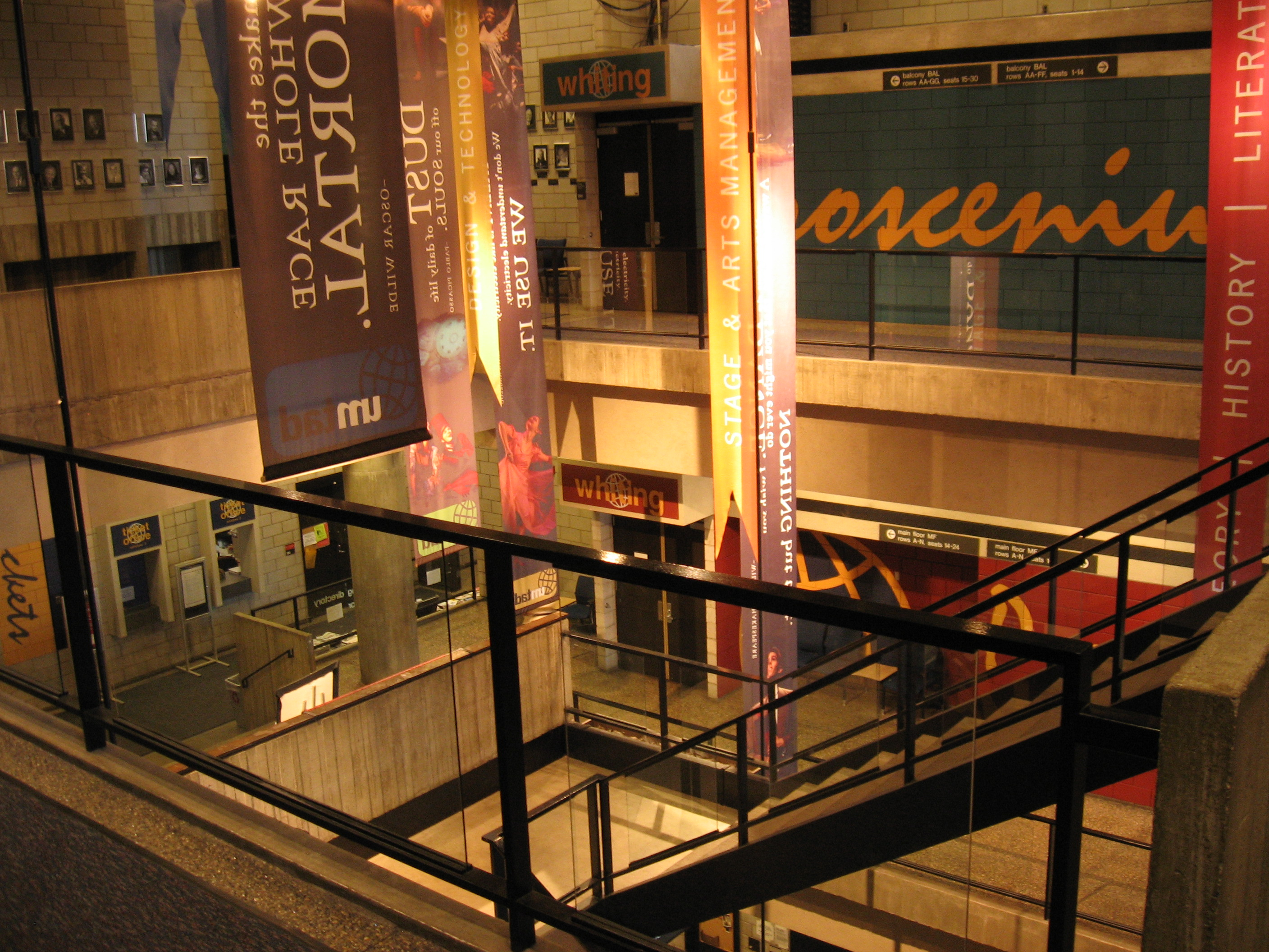 Rarig Center, University of Minnesota, Twin Cities